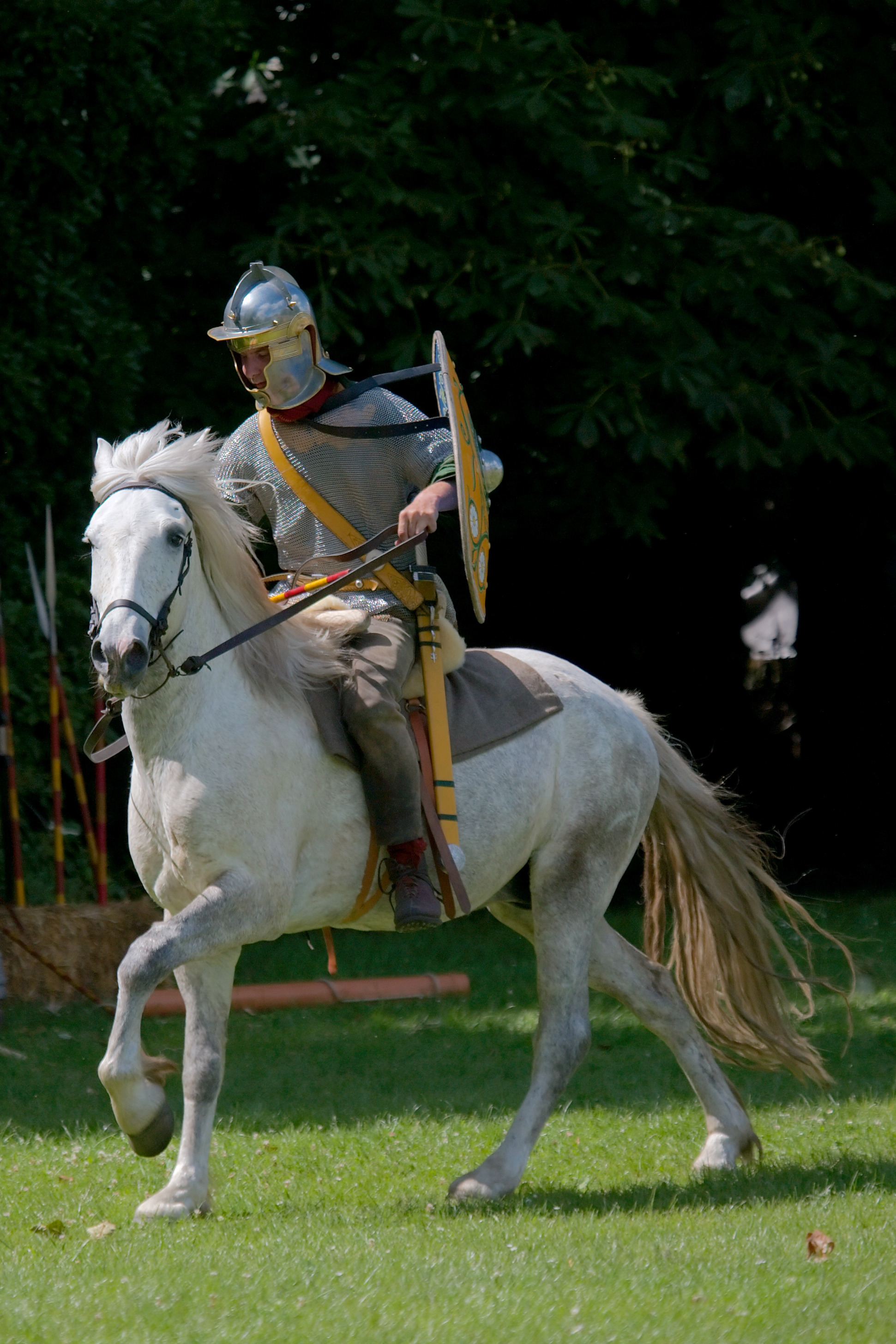 Roman cavalry reenactment show during "Römerfest 2008" in Carnuntum. Show of